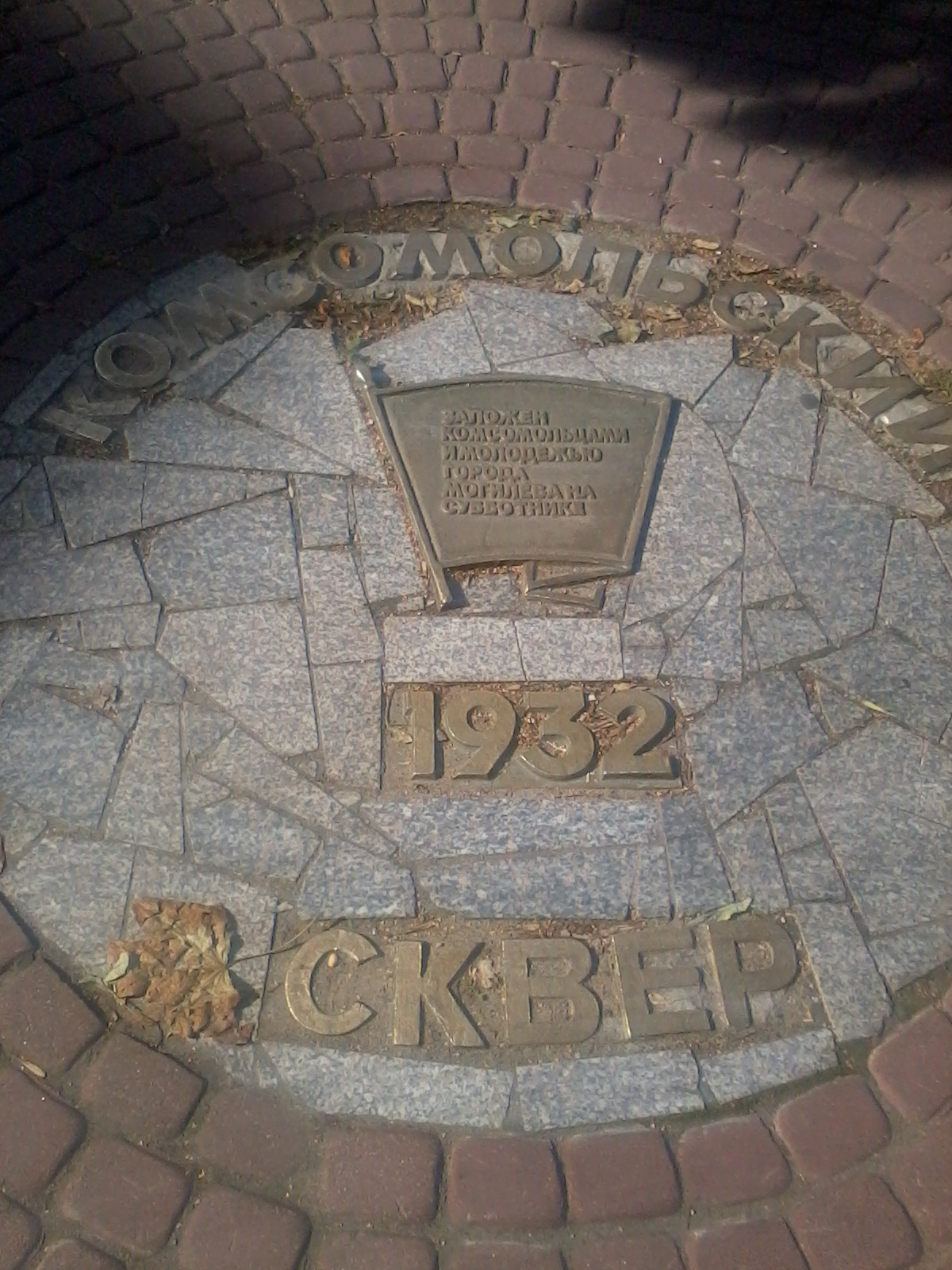 Komsomol Square, Mogilev